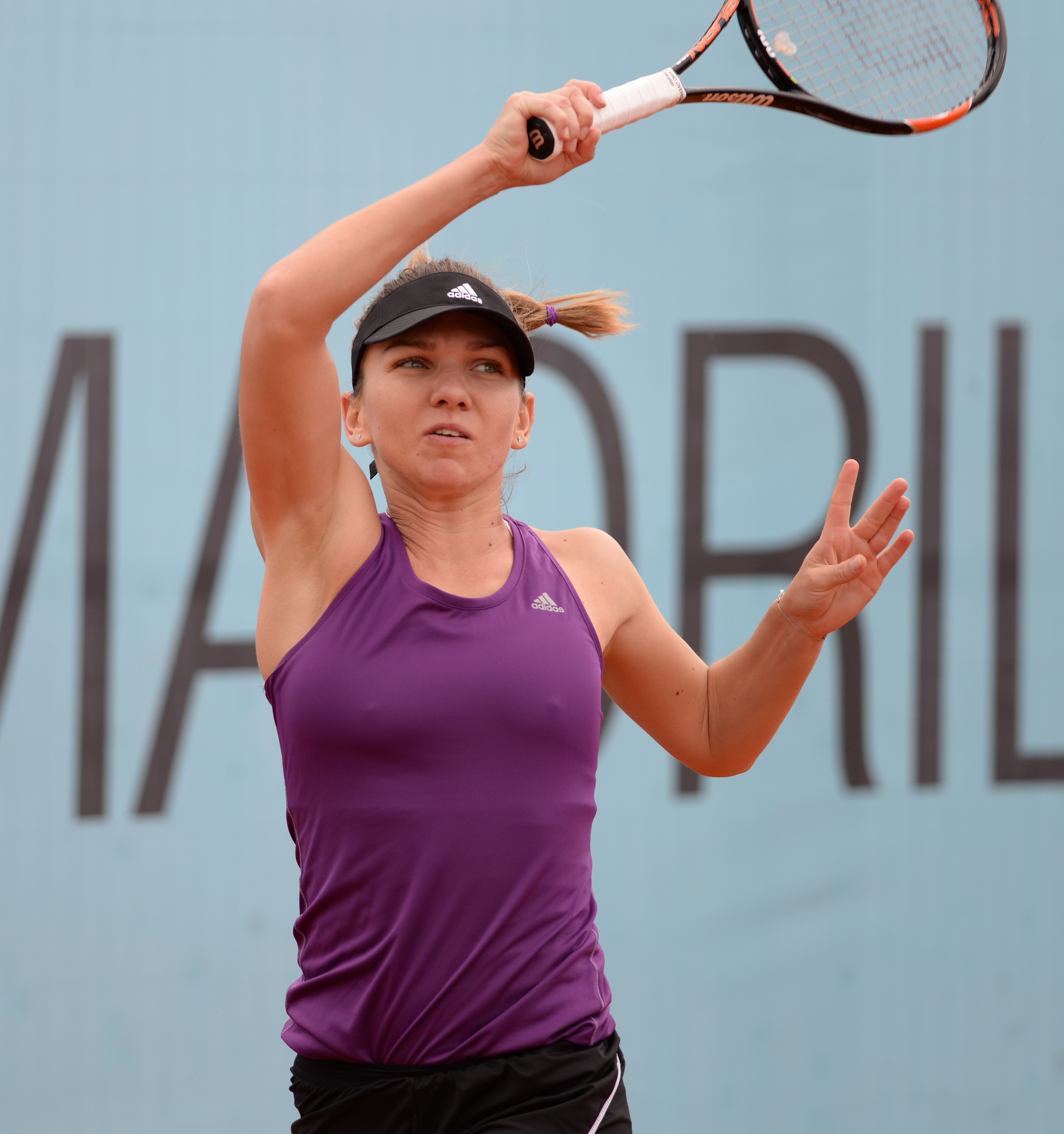 Simona Halep at Mutua Madrid Open 2015